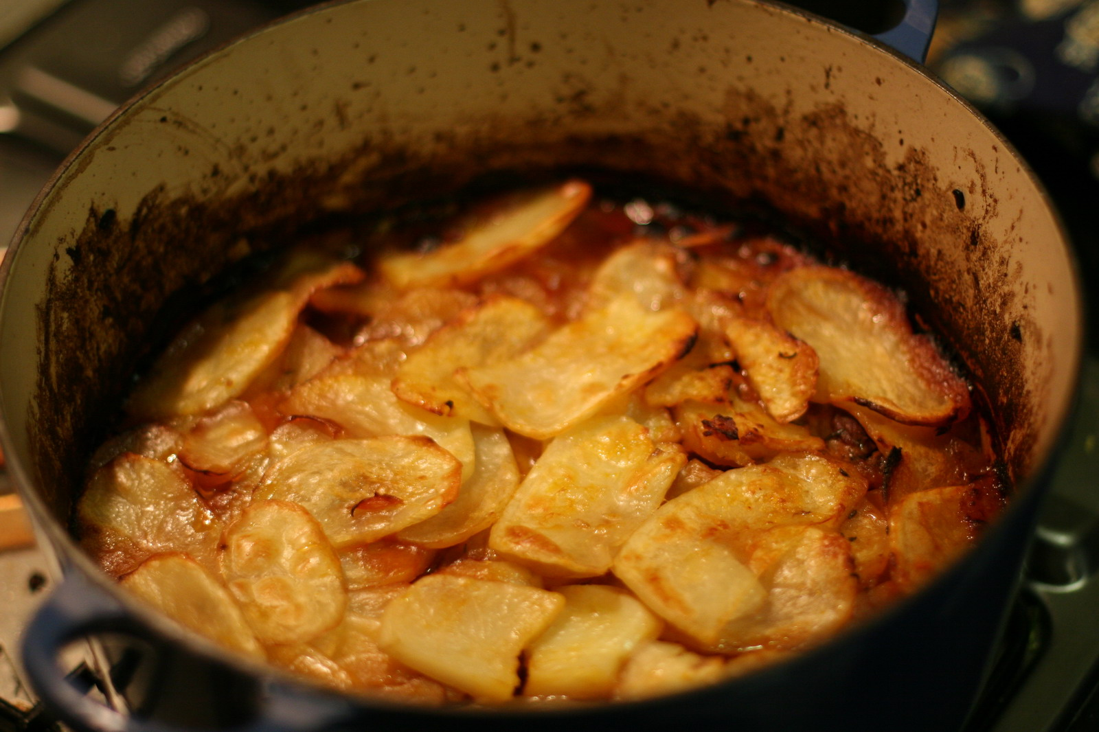 navarin of lamb out of the oven